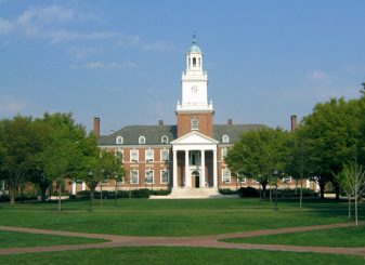 Gilman Hall, Johns Hopkins University, Maryland, USA.